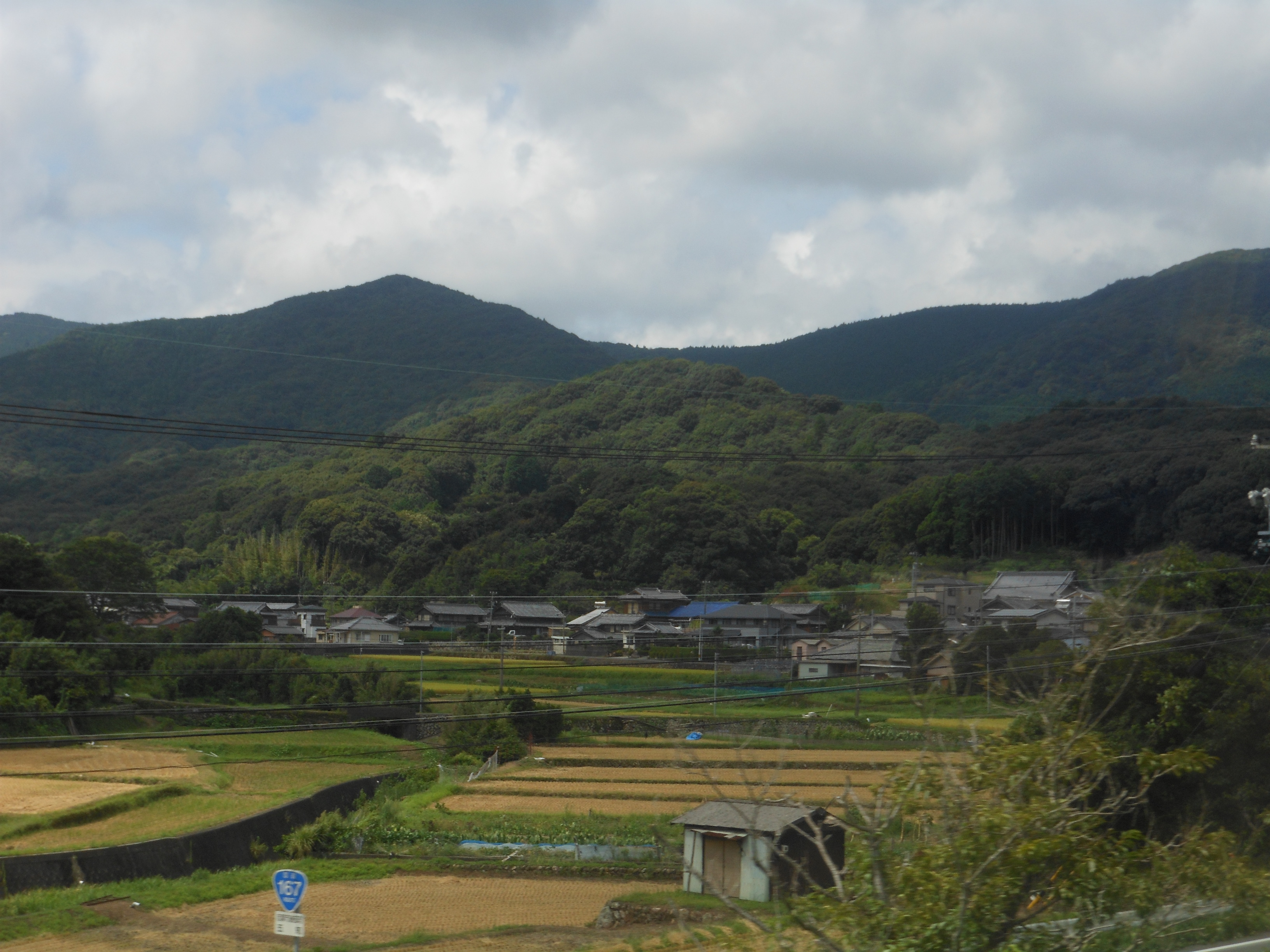 This is a photo of Gochi,Isobe Town,Shima City,Japan